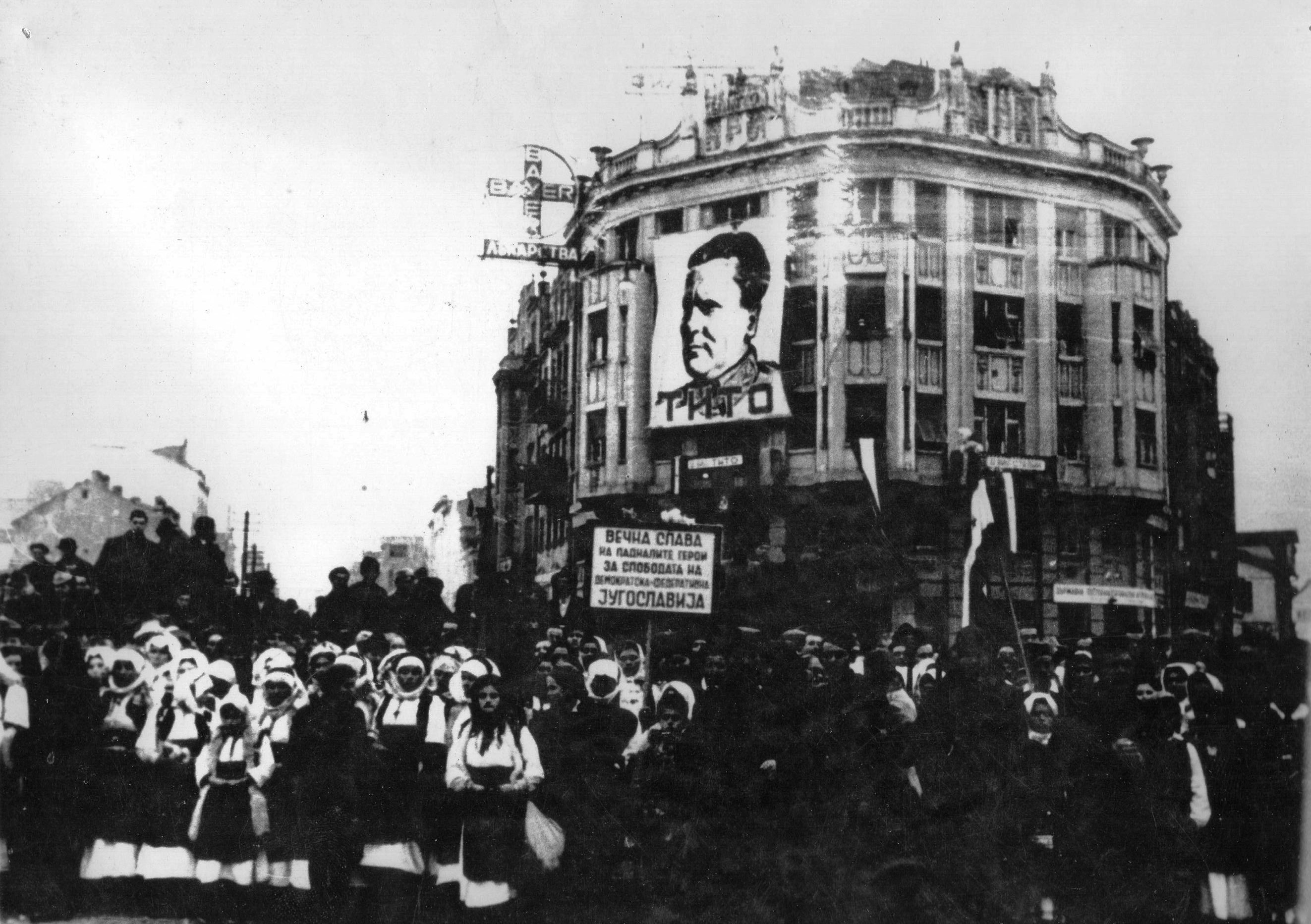 Series of photos taken after the liberation of Skopje, marches, rallies, speeches. 1945 This media file is produced by Wikipedian in Residence in Category:Wikipedian in Residence at DARM in 2016.